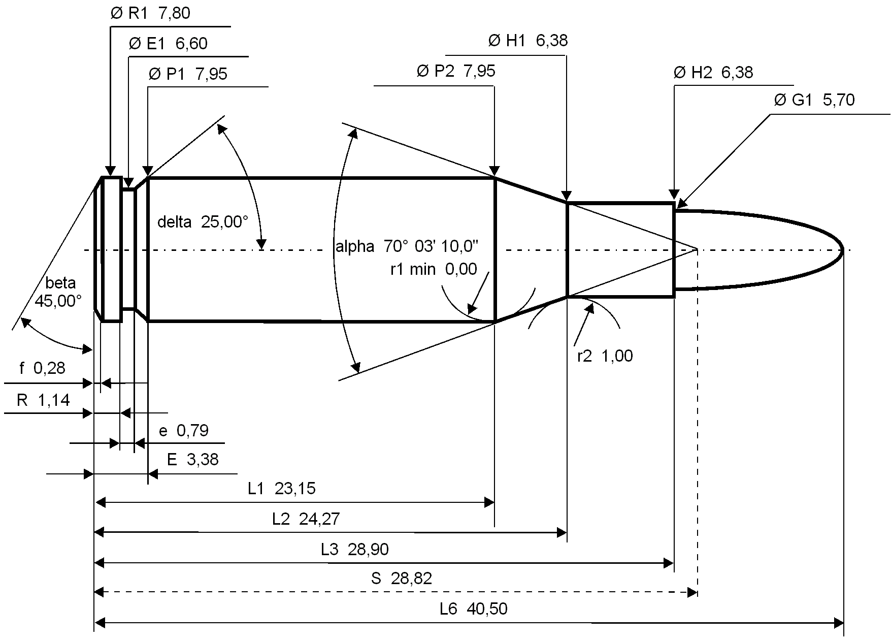 5.7x28mm maximum C.I.P. cartridge dimensions. All sizes in millimeters (mm).